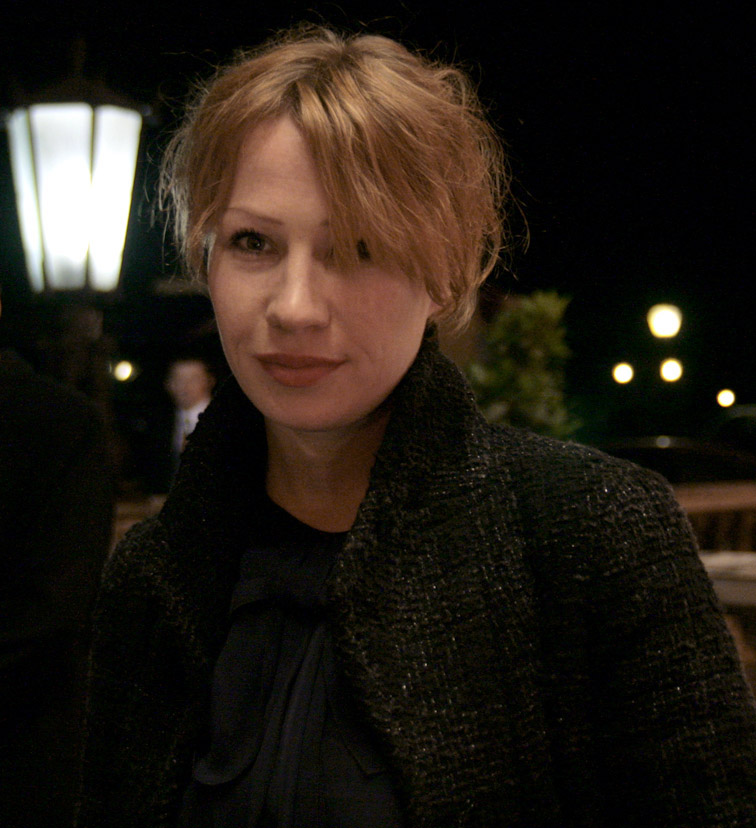 Actress Birgit Minichmayr at the Romy TV awards (Hofburg Imperial Palace in Vienna)